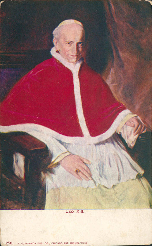 Postcard view of a portrait of Pope Leo XIII.